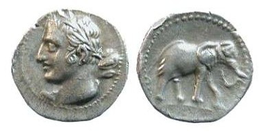 Coin showing Hannibal Barca